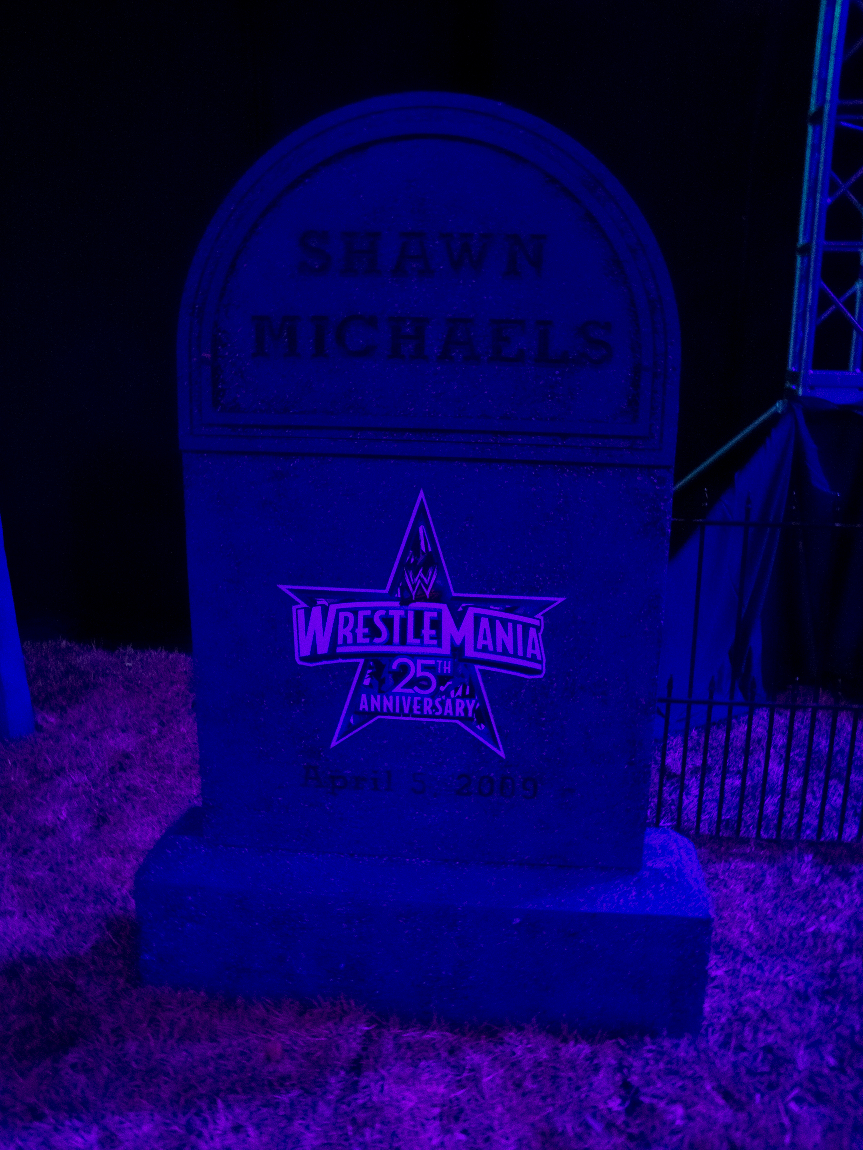 The Undertaker's Graveyard @ Axxess